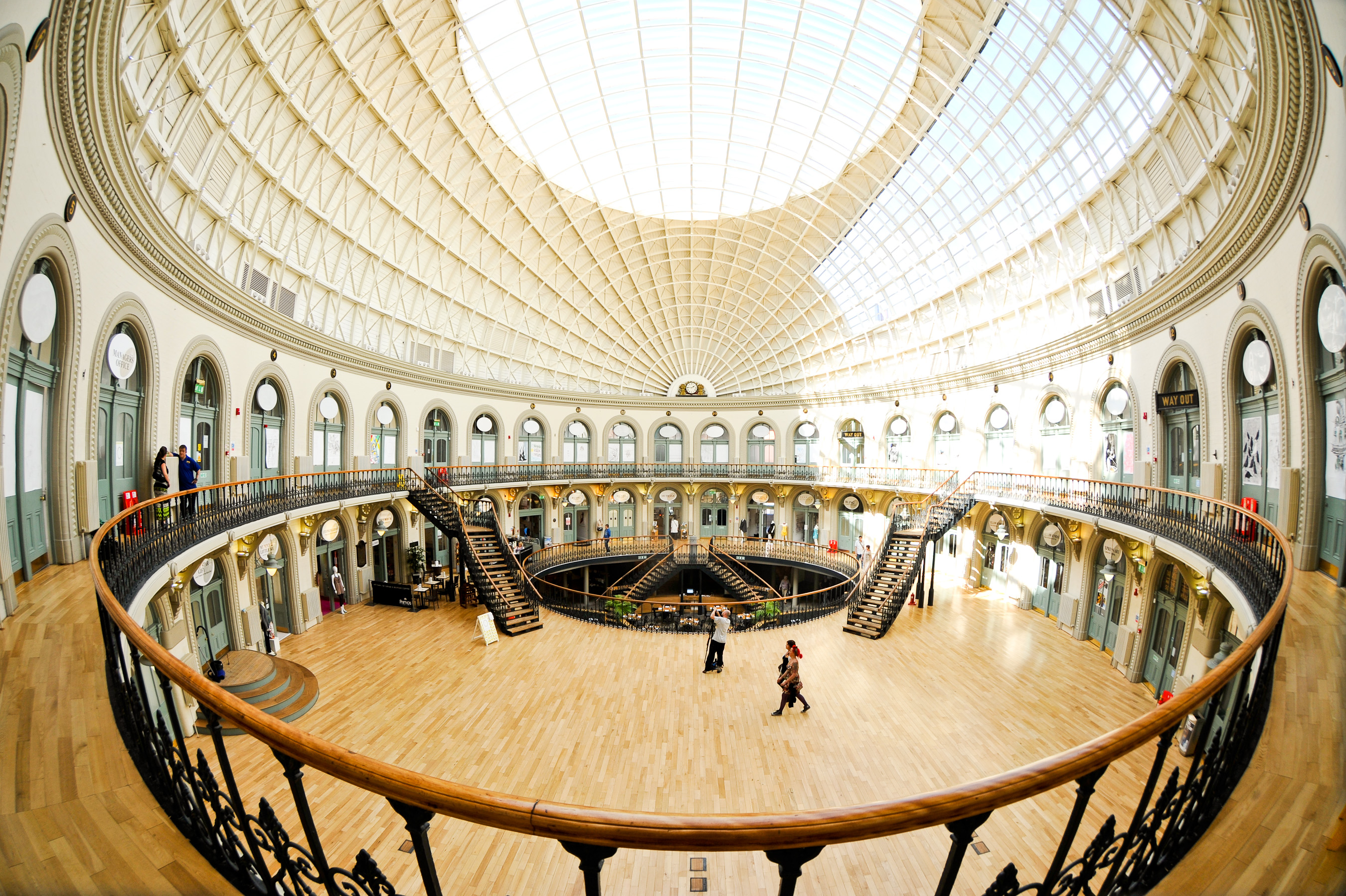 A fish eye lense shot of Leeds Corn Exchange